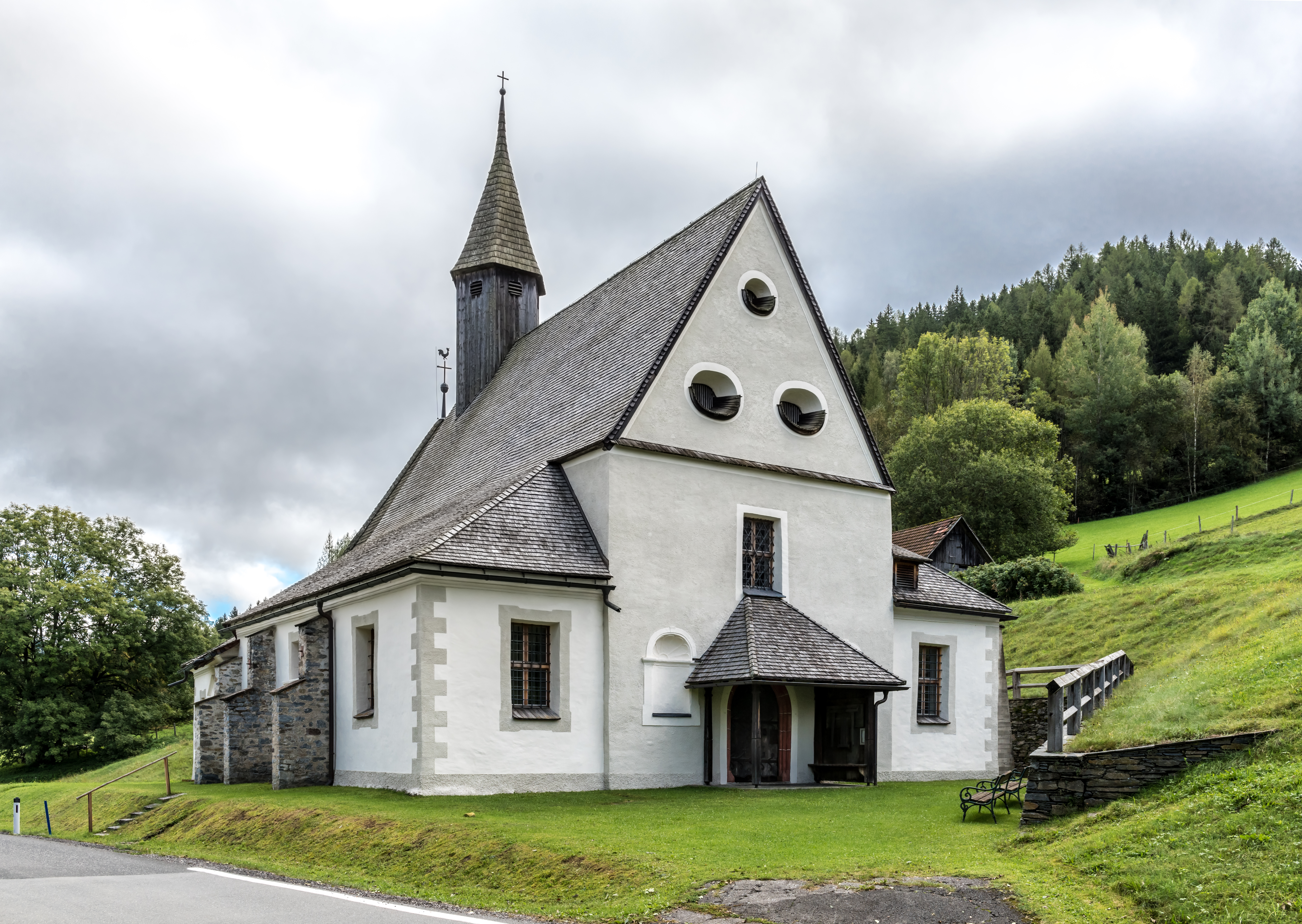 Subsidiary and pilgrimage church Maria Höfl, market town Metnitz, district Sankt Veit, Carinthia, Austria, EU